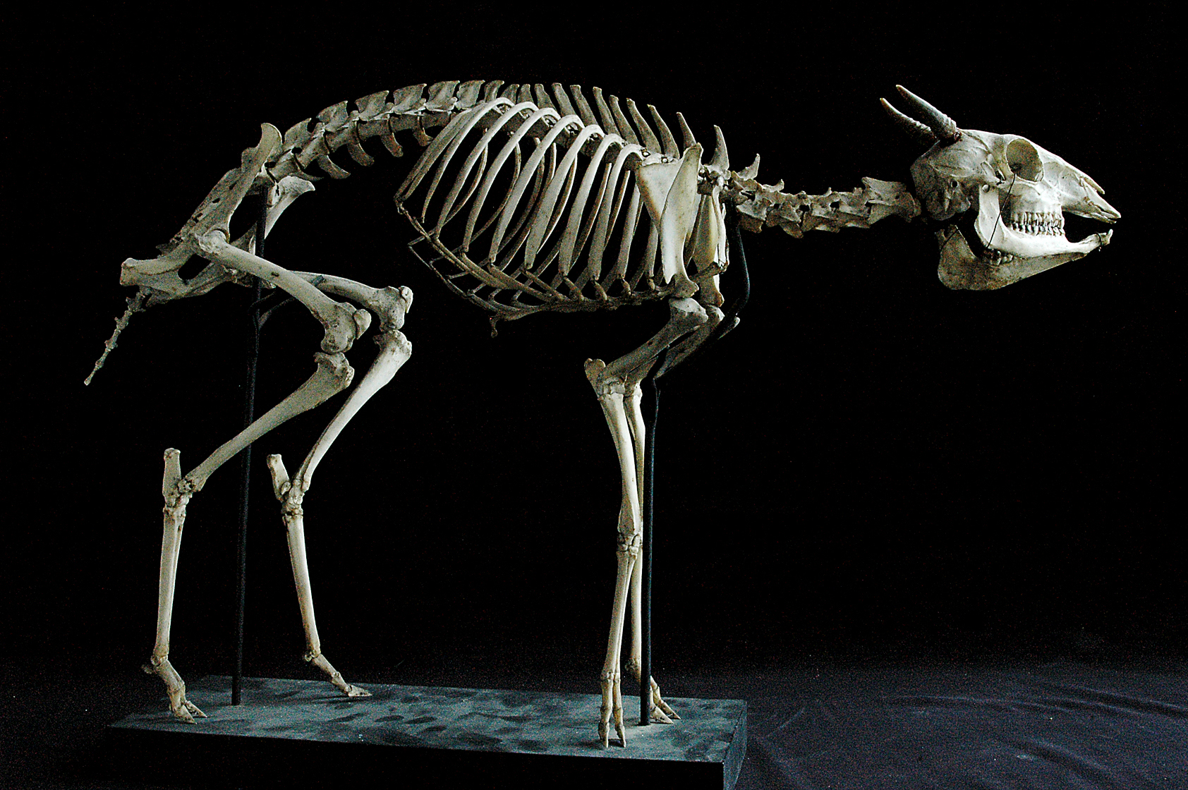 Skeleton of Duiker, Cephalophus sp.